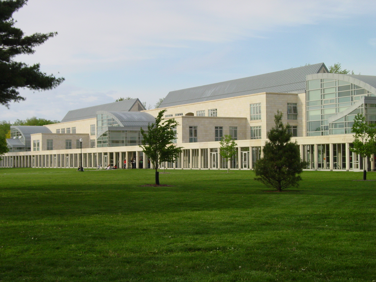 East side residence halls at Grinnell College.